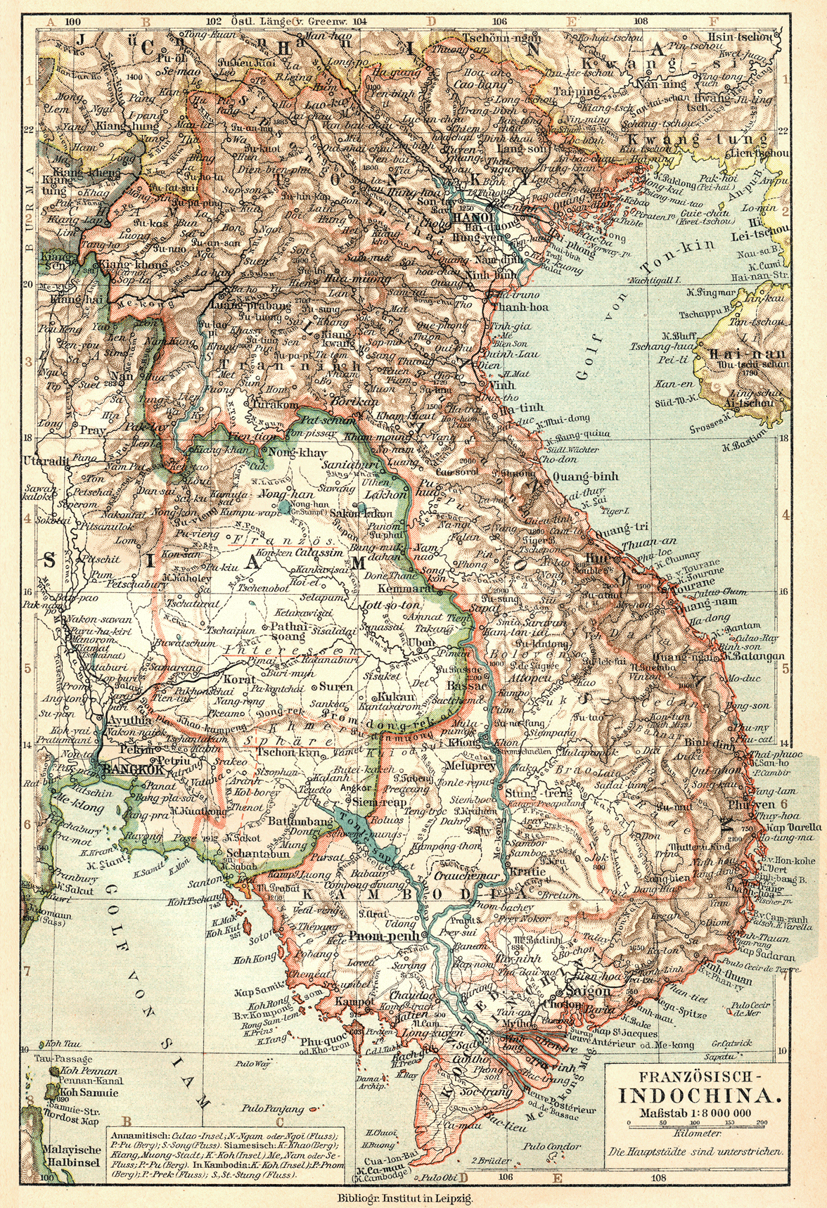 French Indochina (1905)